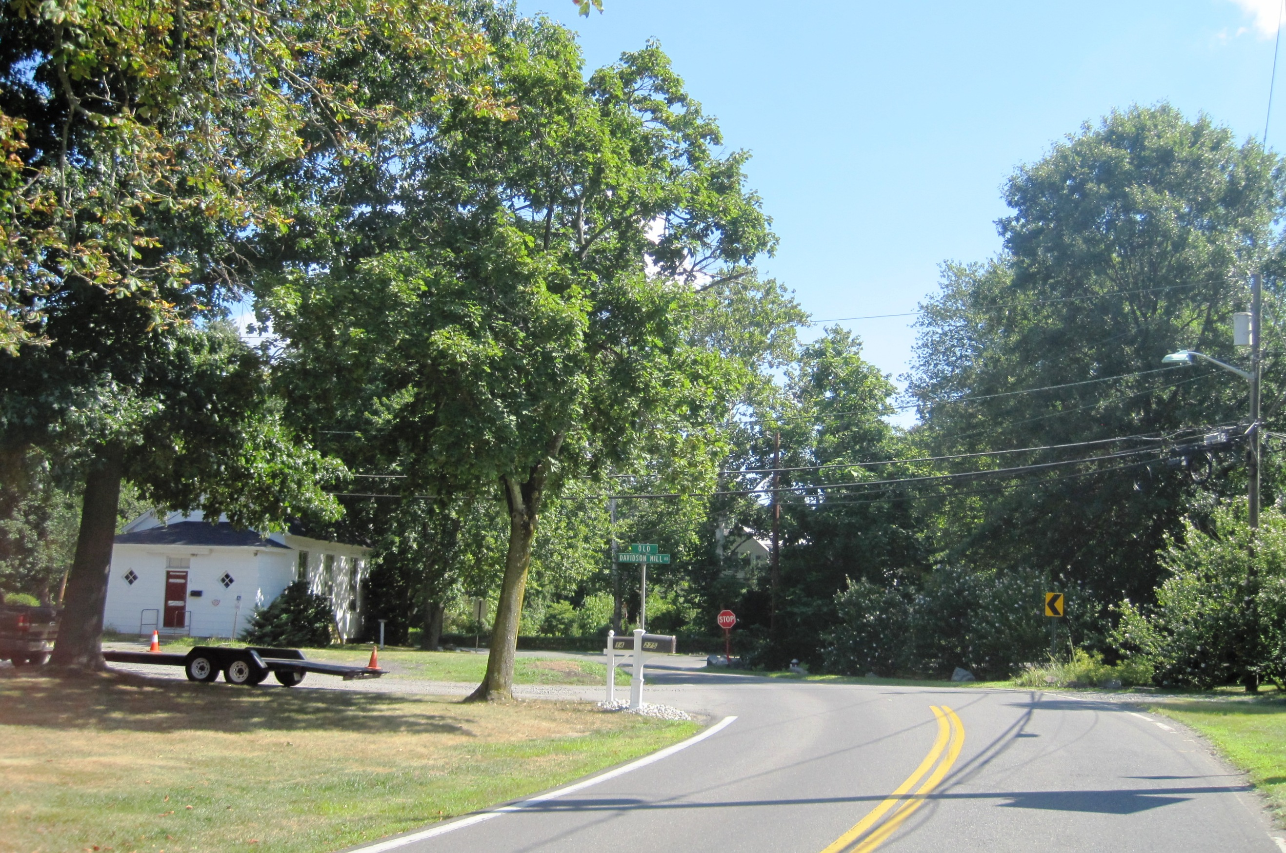 Photo of Fresh Ponds, New Jersey, an unincorporated community within South Brunswick. Photo taken on northbound Fresh Ponds Road approaching Davidsons Mill Road.